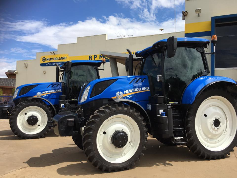 New Holland T7 Series Tractors infront of a dealership.